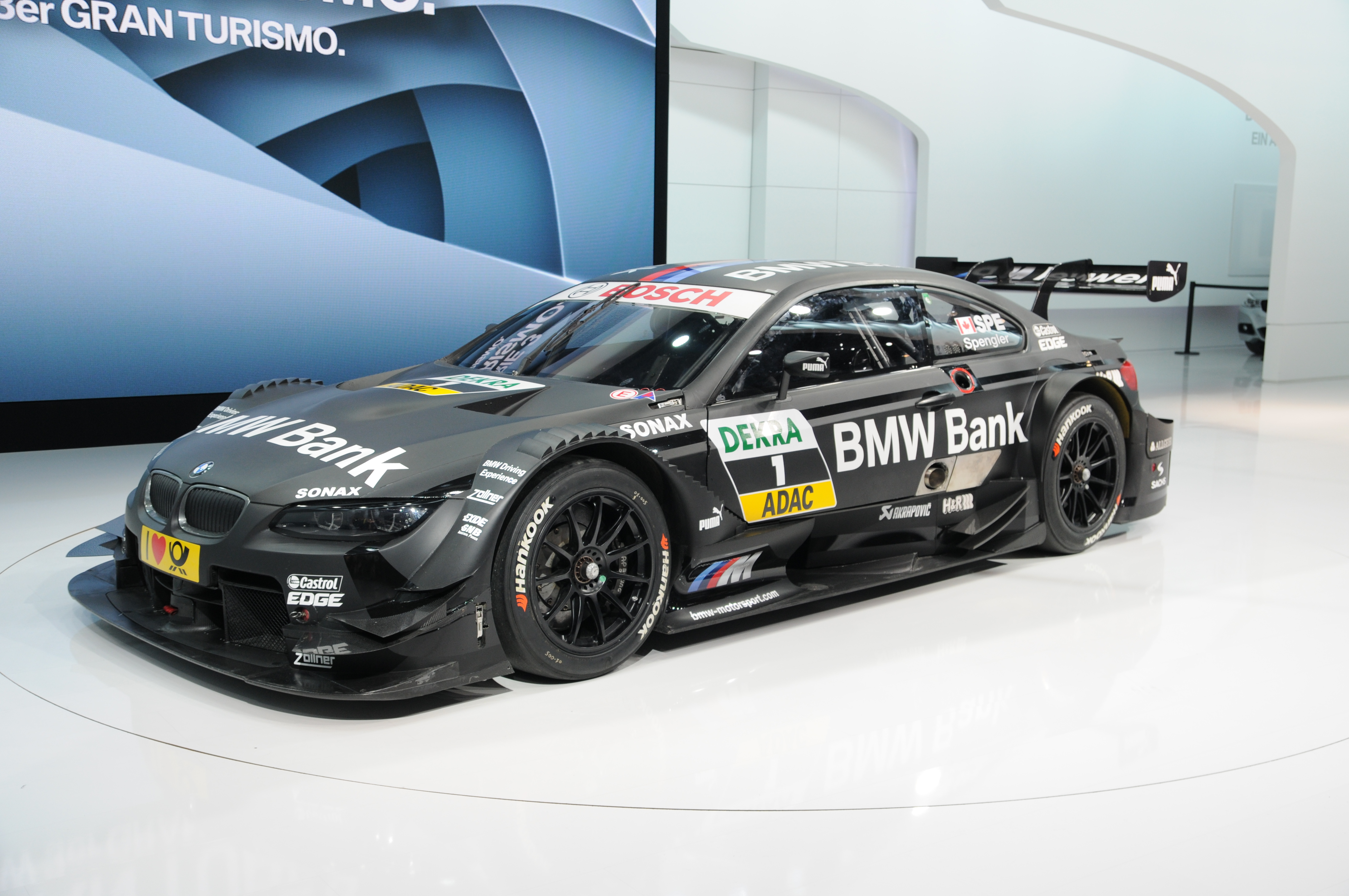 Geneva Motor Show 2013 (photos taken on the first press day)